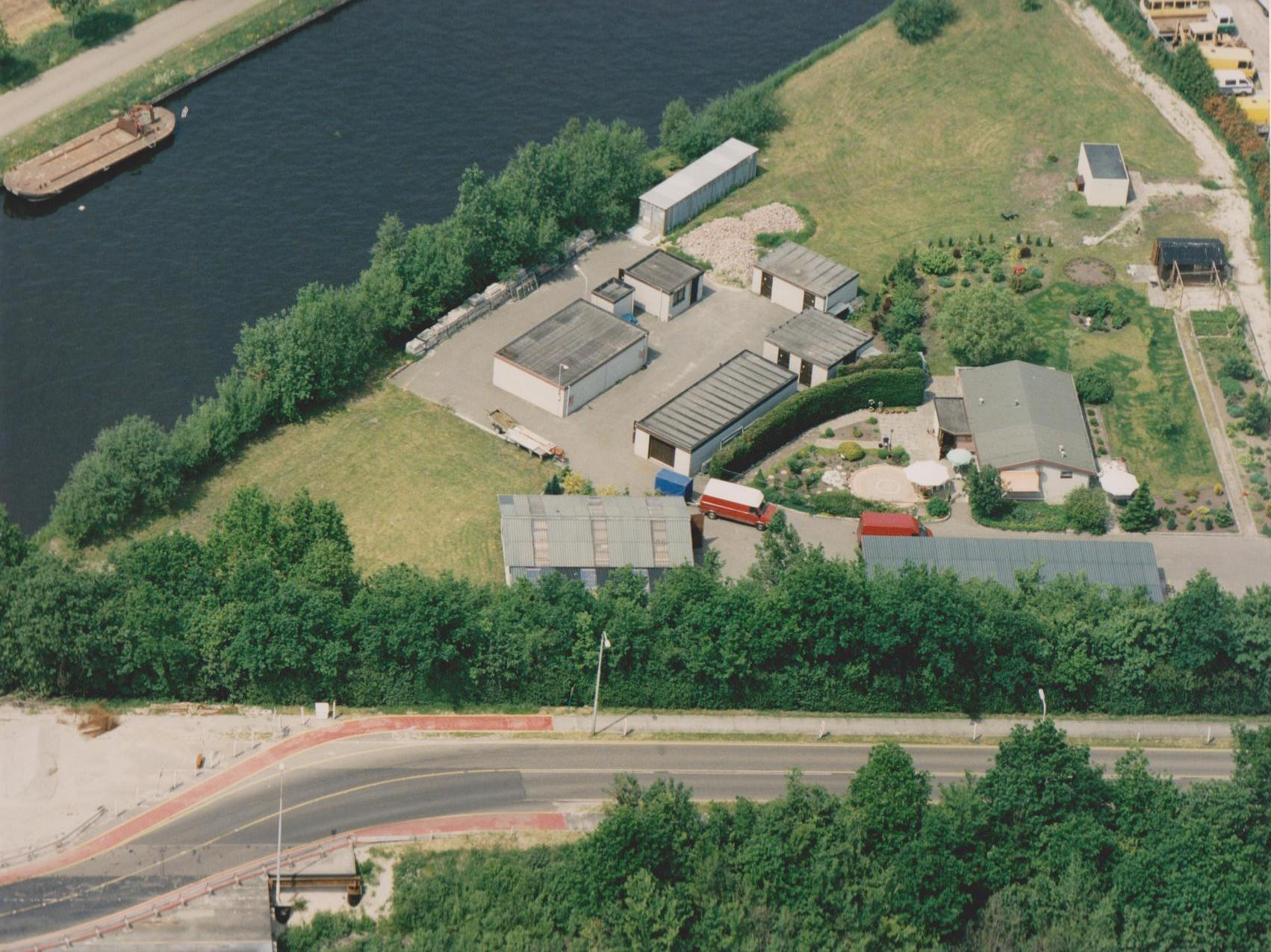 An aerial photograph of the Dutch fireworks factory of Kunstvuurwerkfabriek van der Nat B.V. made in 1997